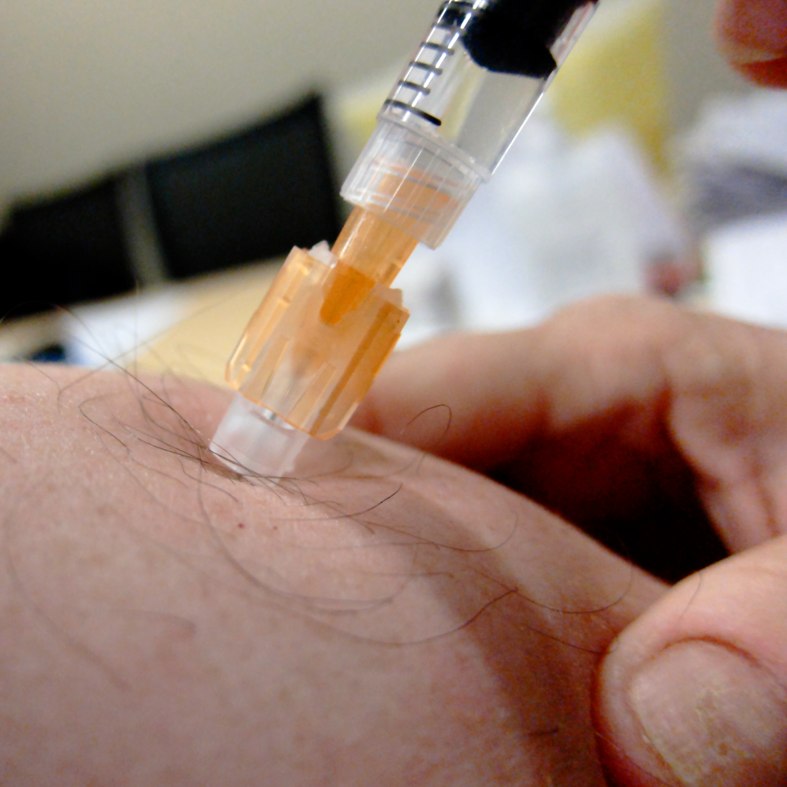 Vaccin 2010 A/California/7/2009 (H1N1) A/Perth/16/2009 (H3N2) B/Brisbane/60/2008